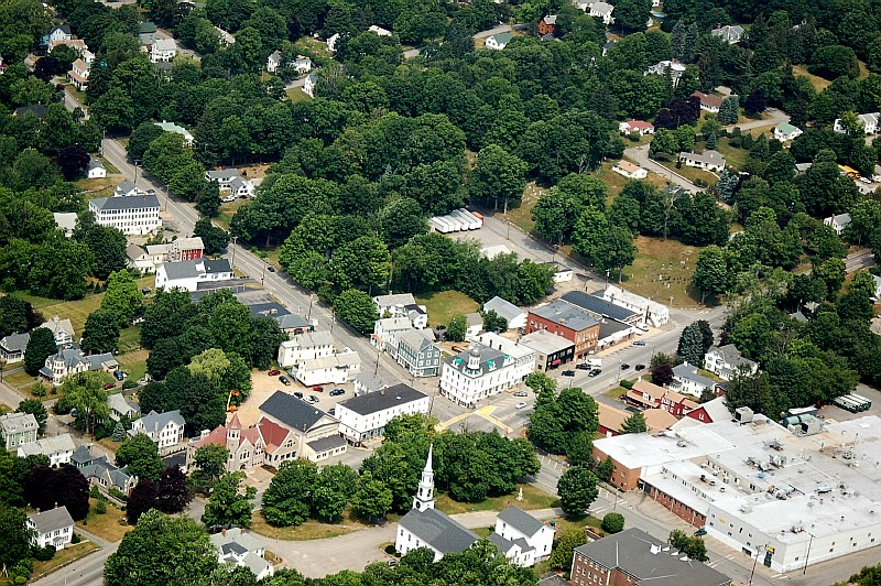 Photo taken on July 4th, 2007 by Richard B. Johnson from his Grumman Cheetah.